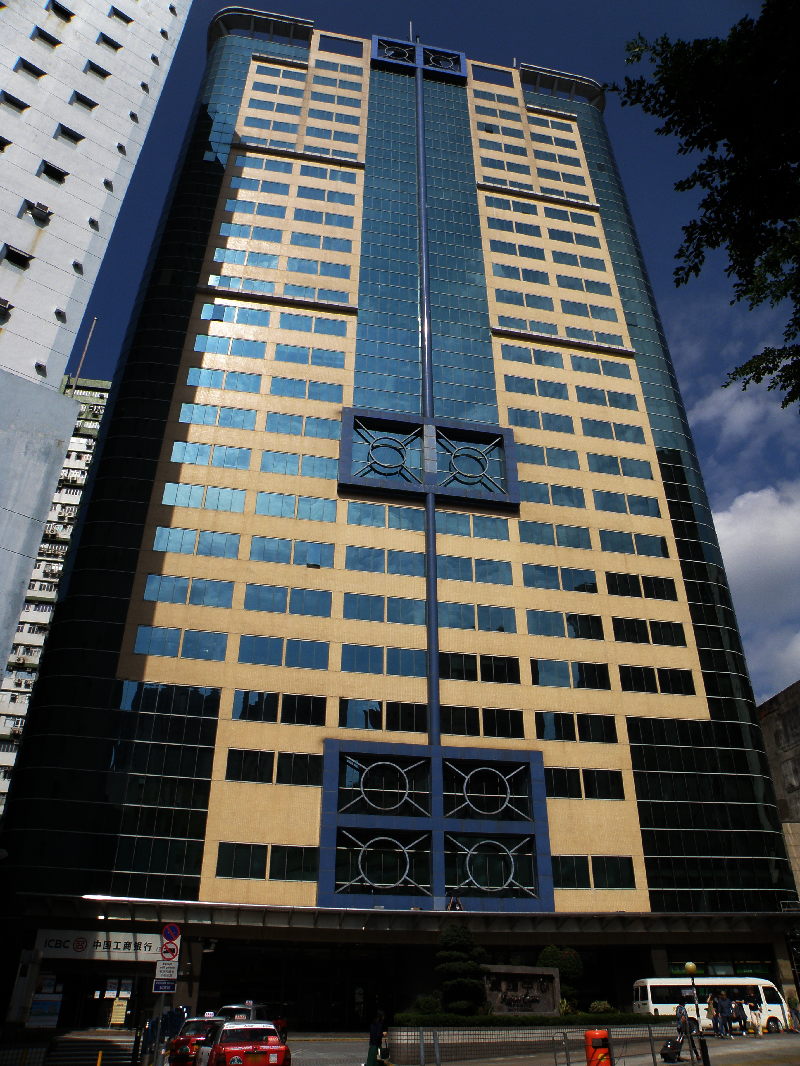 Regent Centre in Kwai Chung, Hong Kong.